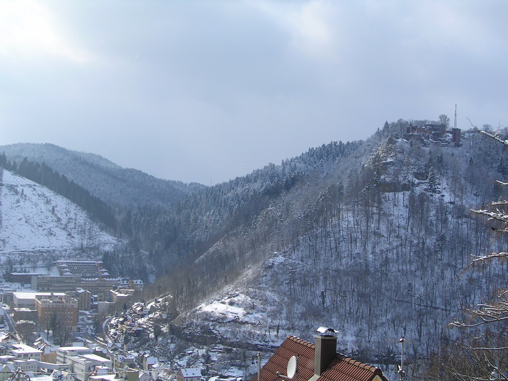 This shows the "Hohenschramberg" and the "Junghans" factory in Schramberg in the black forest.